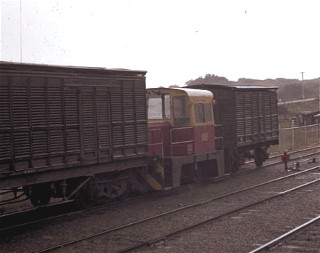 Shunting Tractor X102 at Coffs Harbour